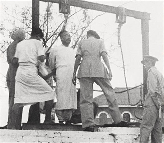 U Saw was a leading Burmese politician and the Prime Minister of British Burma during the colonial era before the Second World War. He is also known for his role in the assassination of Burma's national hero Aung San and other independence leaders in July 1947, only months before Burma gained independence from Britain in January 1948. He was executed by hanging for this assassination.